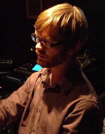 Jared Emerson-Johnson conducting a music recording session at AudioSFX in Marin County, CA.